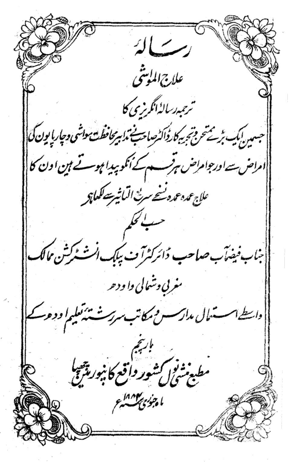 Title page of Ilaj al Mawashi, veterinary text translated into Urdu from J.H.B. Hallen's work